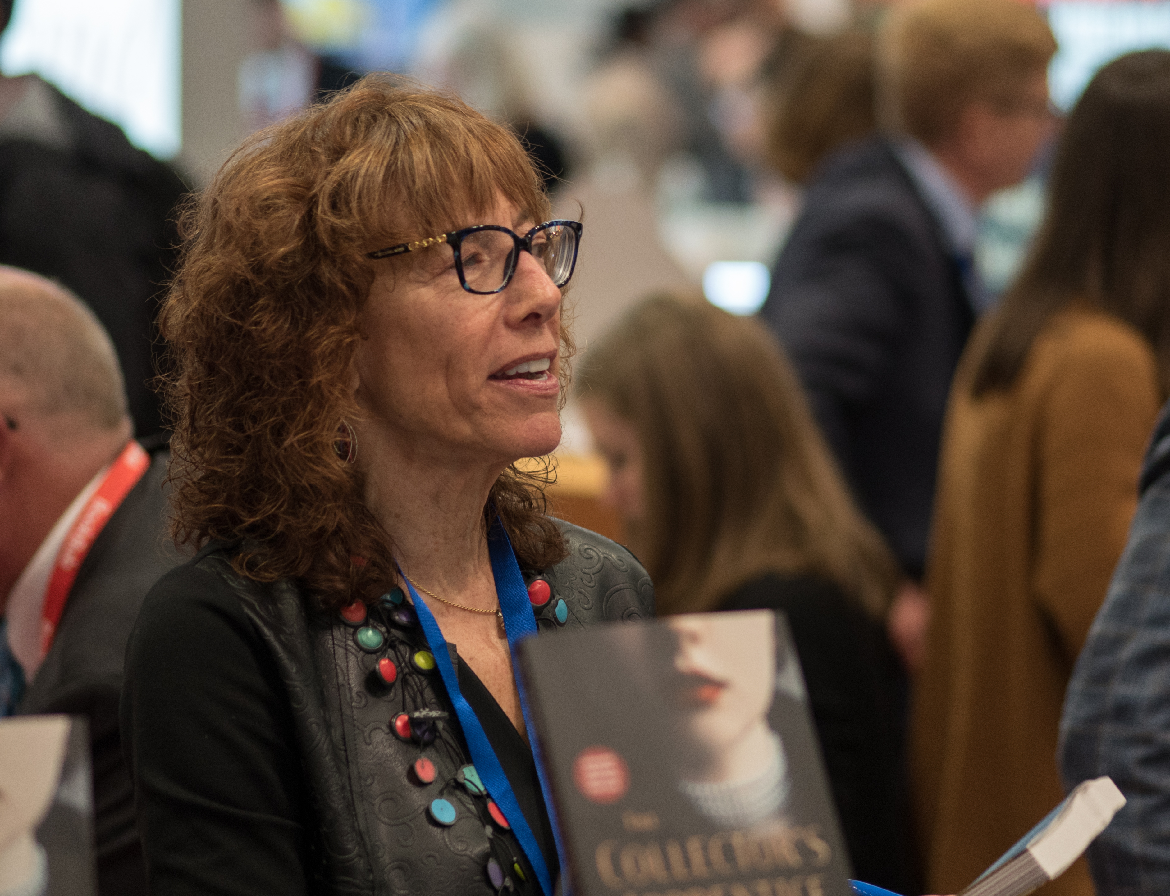 B. A. Shapiro BookExpo America 2018 at the Javits Convention Center in New York City.